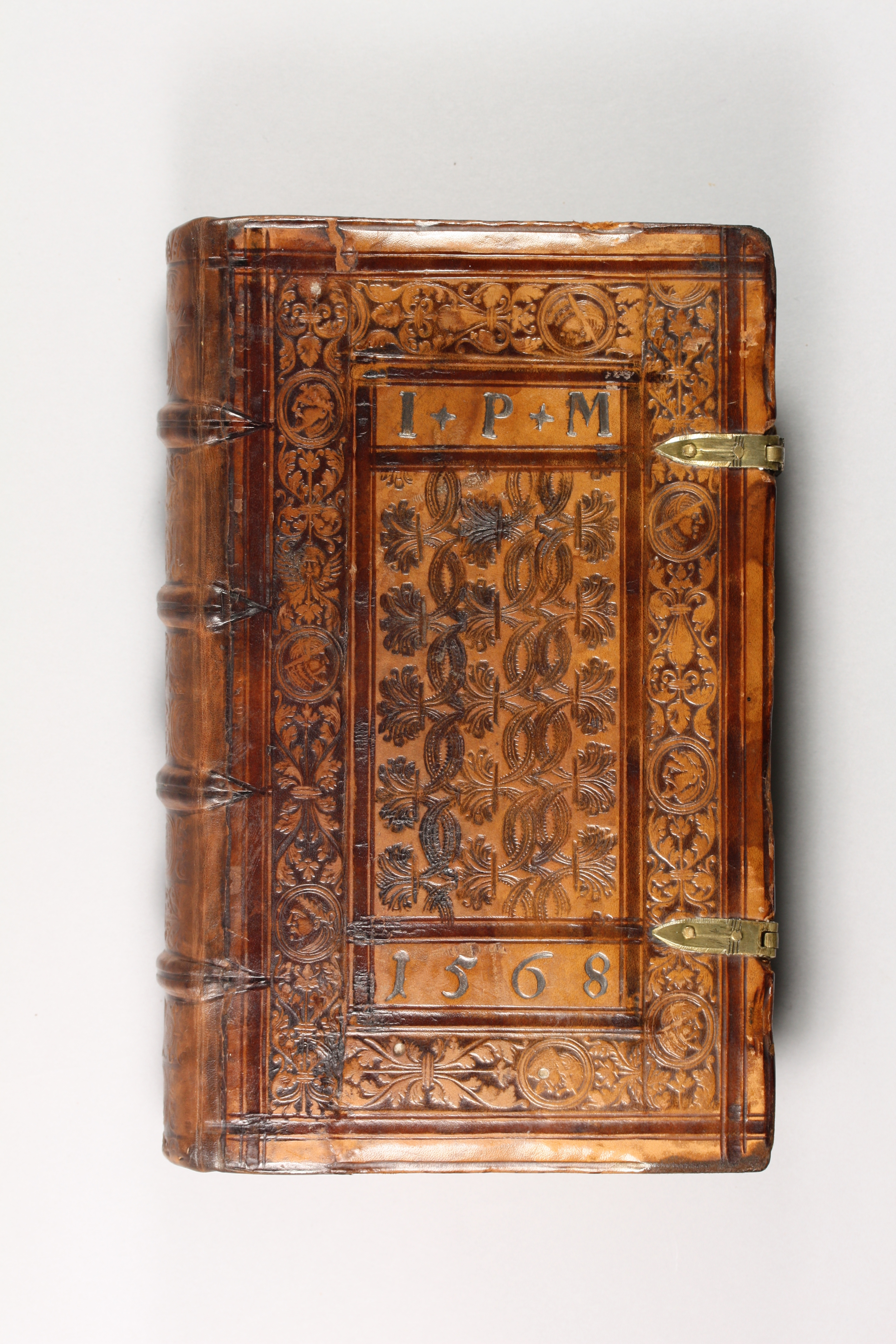 Sammelband containing Bernard of Trevisan, ϖερἰ χημείας opus historicum & dogmaticum (Strasbourg: Samuel Emmel, 1567); Zadith ben Hamuel (i.e., Muhammed ibn Umayl), De chemia senioris antiquissimi philosophi, libellus, ut brevis, ita artem discentibus, & exercentibus, utilissimus, & verè aureus (Strasbourg: Samuel Emmel, 1560); and Ars Chemica (Strasbourg: Samuel Emmel, 1566). The cover bears the date 1568. Exquisite Sammelband of extremely rare alchemical treatises printed by Samuel Emmel. This is the only copy of the first printing of Bernard of Trevisan in a North American library, and the earliest printed edition of the work of Zadith ben Hamuel, held in one other North American library. The Ars Chemica is noted for Isaac Newton’s many references to it. It is held in three other North American libraries.